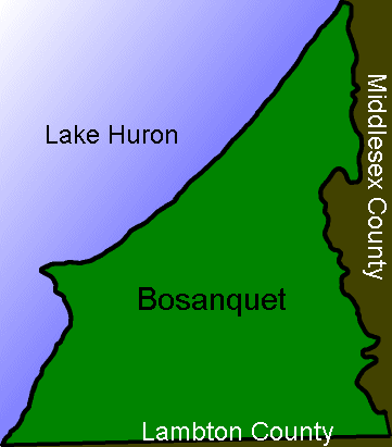 Simplified map of the political boundaries of the former township of Bosanquet, Ontario.